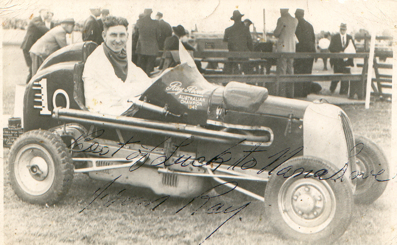 Ray Revell in the Midget known as Q1 which stands for Queensland #1